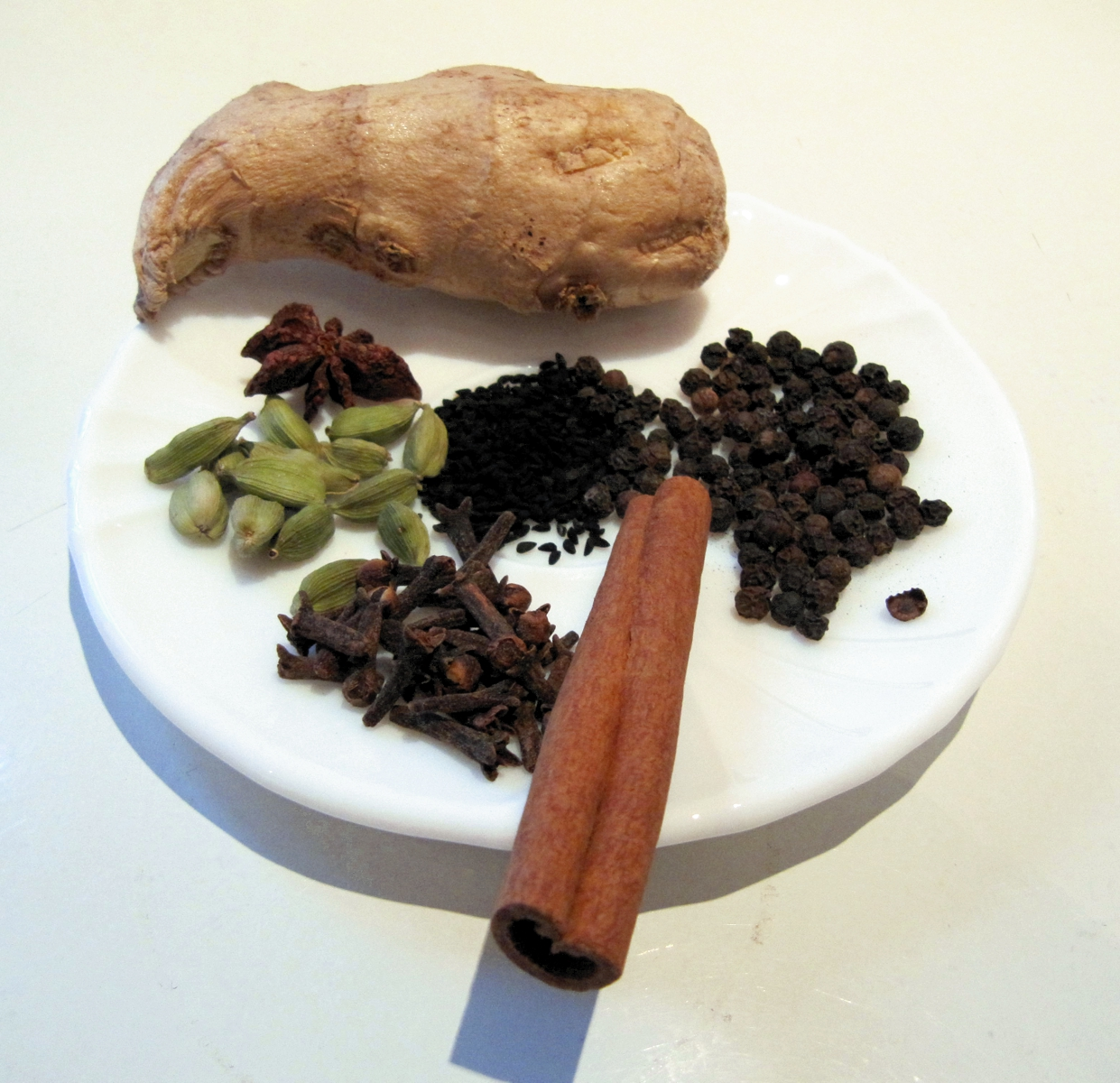 Typical ingredients for classic Yogi tea.